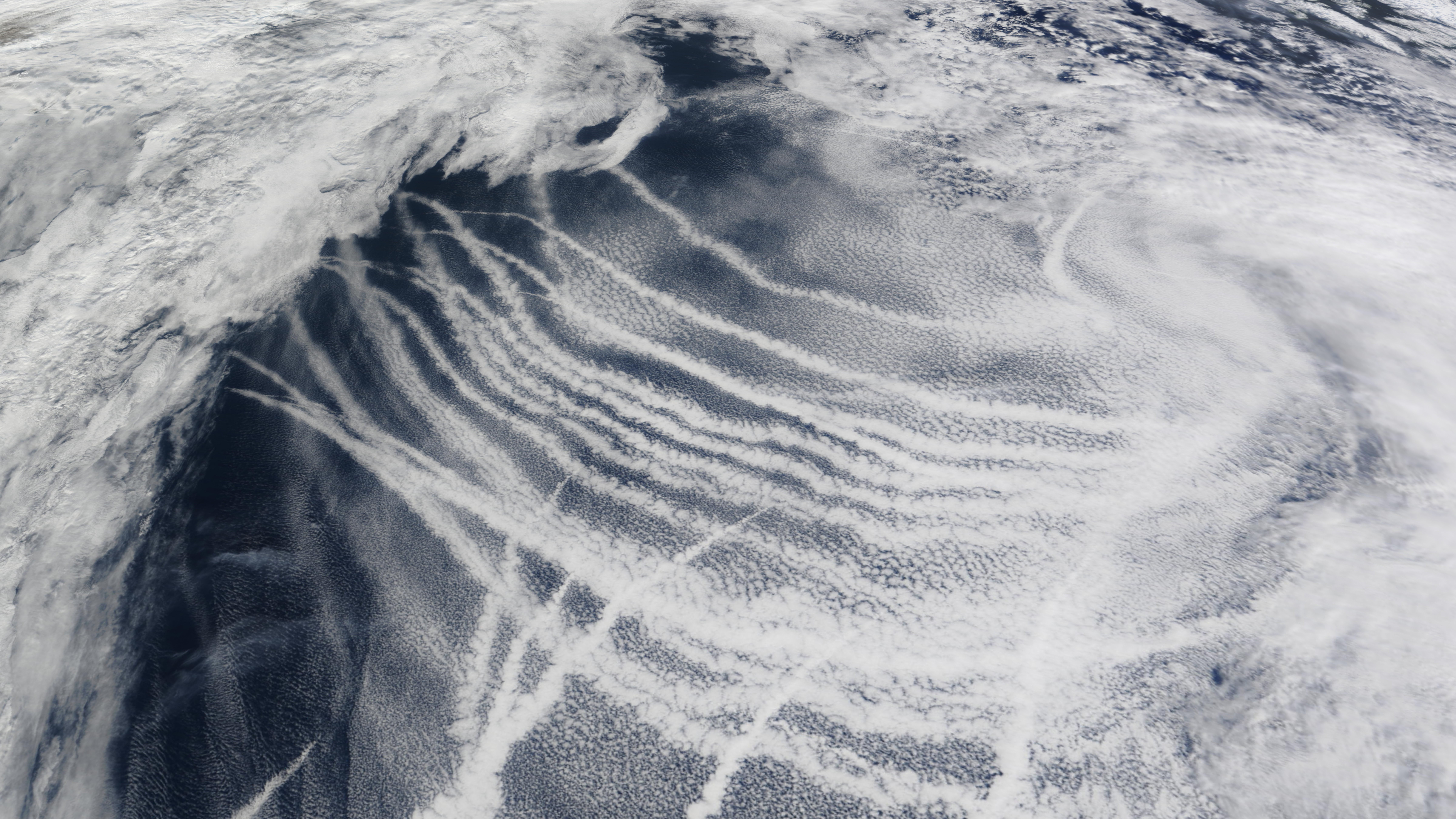 Visible ship tracks in the Nothern Pacific, on March 4th 2009. On an overcast day, the clouds look uniform. However, NASA MODIS images' sesor reveals long skinny trails of brighter clouds hidden within. As ships travel across the ocean, pollution in the ships' exhaust create more cloud drops that are smaller in size, resulting in even brighter clouds. On clear days, ships can actually create new clouds. Water vapor condenses around the particles of pollution, forming streamers of clouds as the ships travel on. The ship tracks themselves are too small to impact global temperatures, but they help us understand how larger pollution sources such as industrial sites or agricultural burning might be changing clouds on a larger scale.